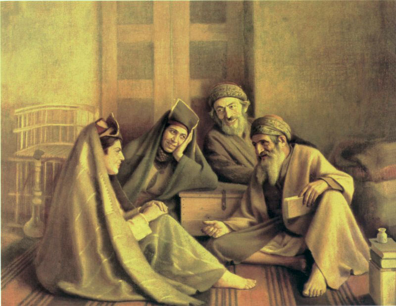 Predictor from Baghdad.